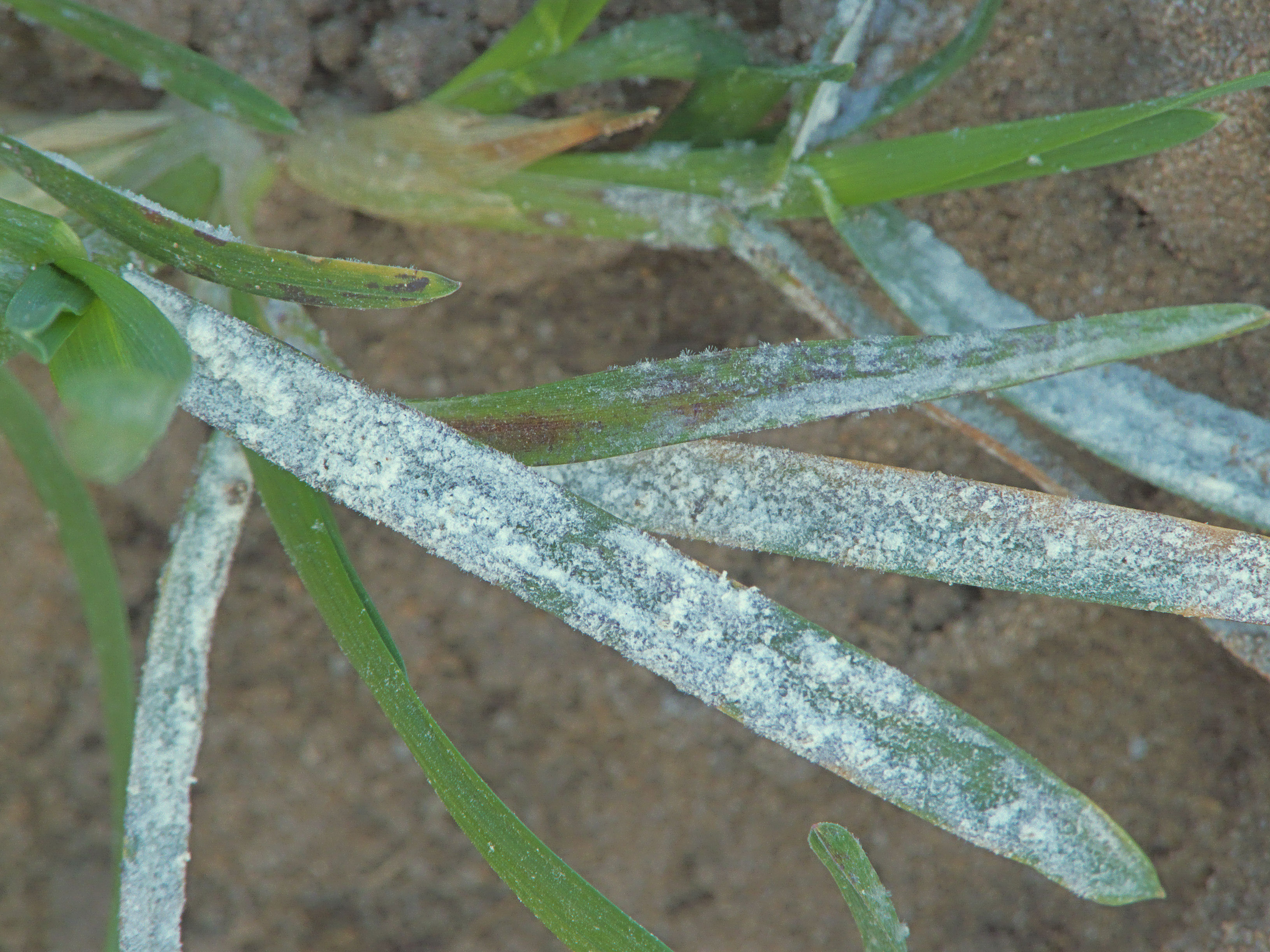 Blumeria graminis at Poa pratensis